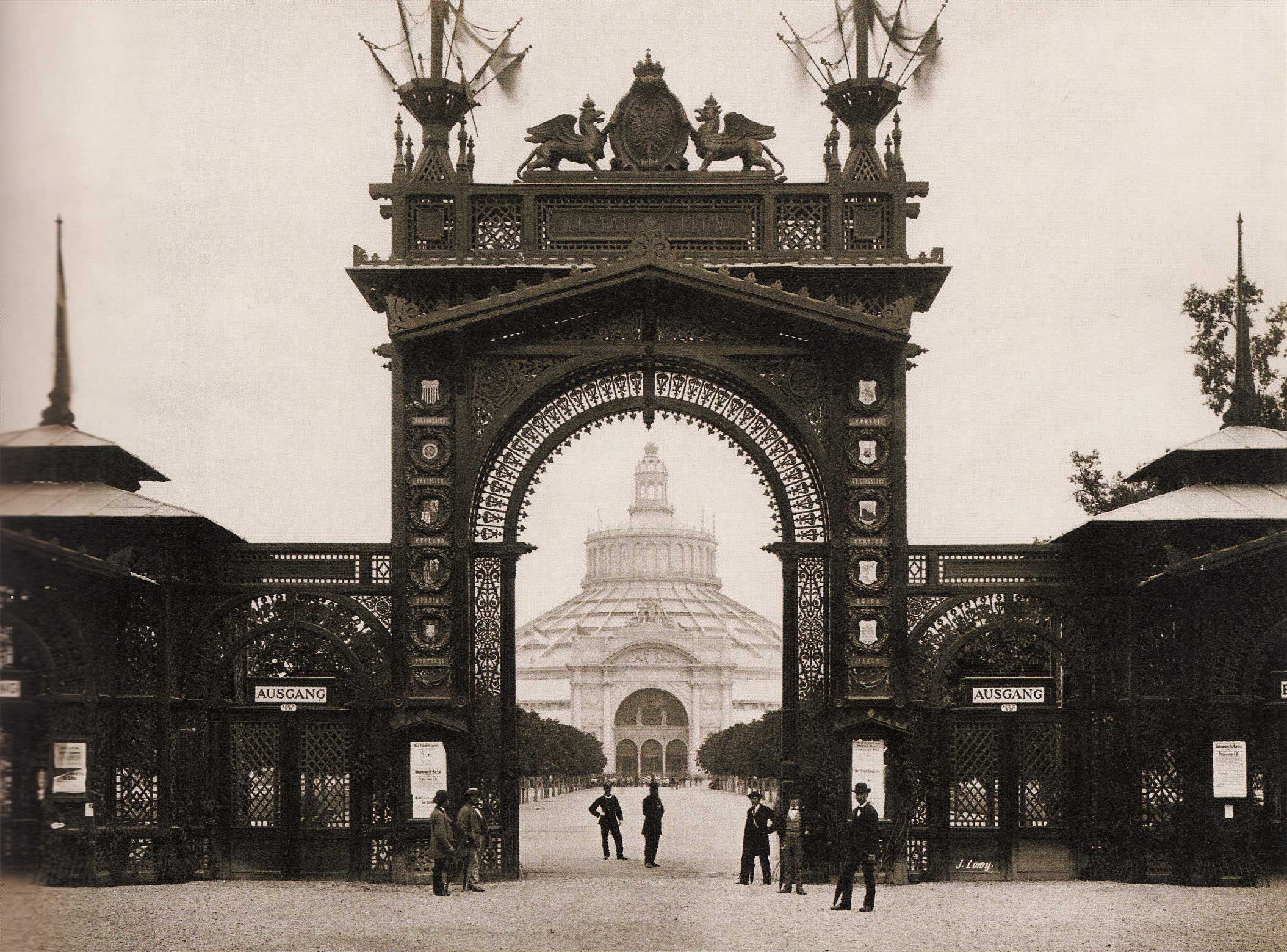 Main Portal Expo 1873